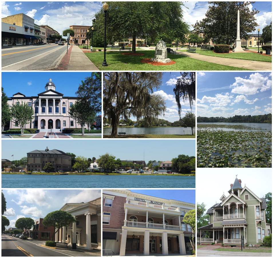 A collection of photos I took around Lake City, Florida.